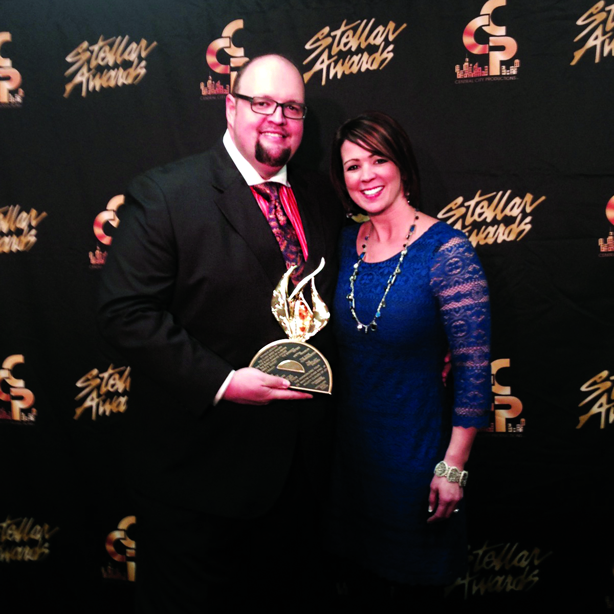 Patrick Dopson Stellar Award